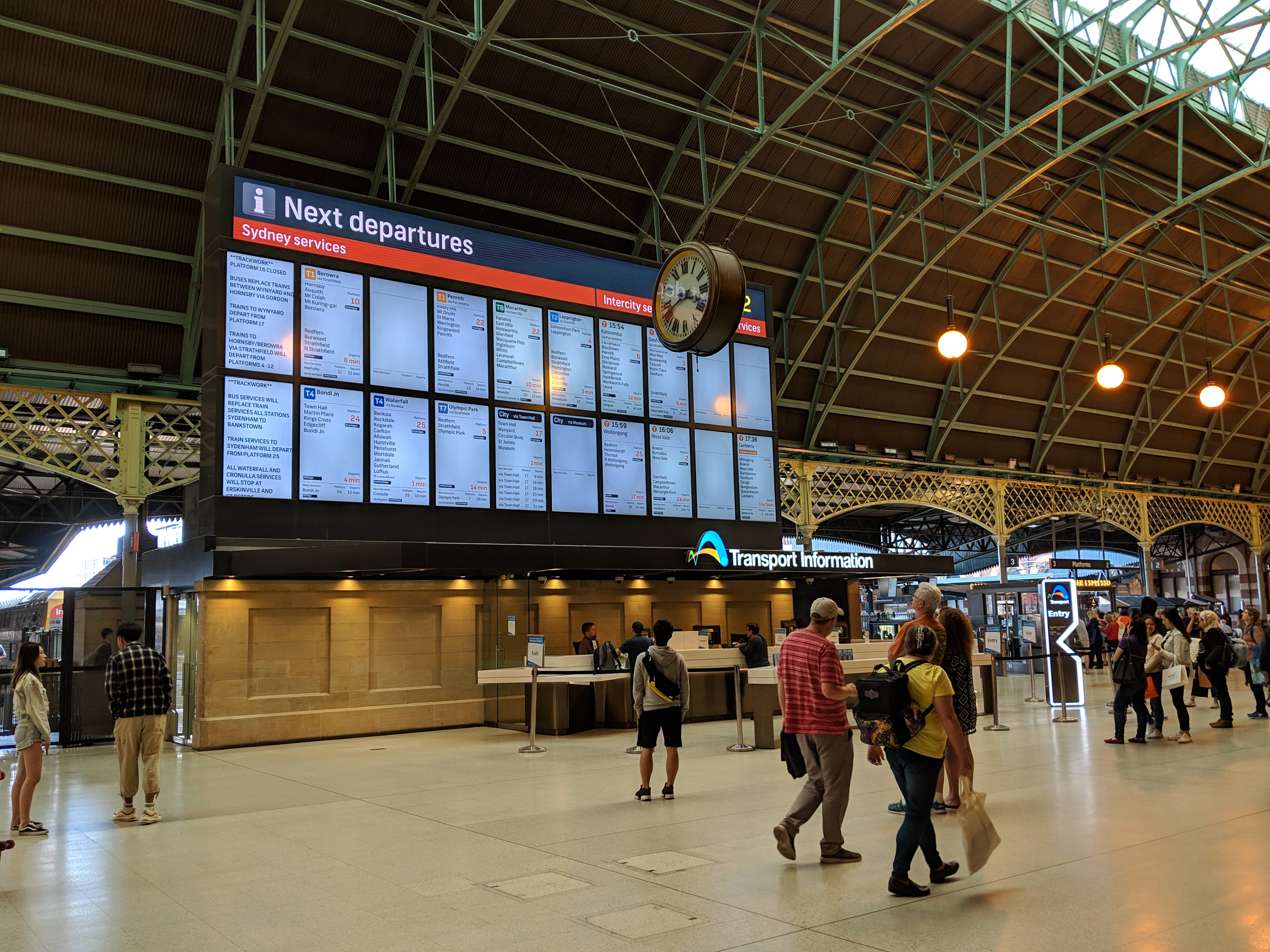 Central Station Concourse Hall